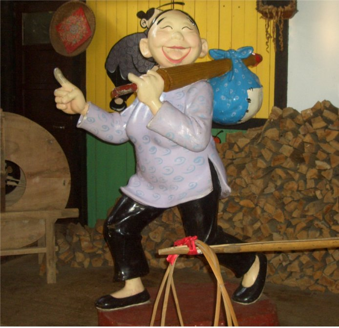 Da-Shen-Po(大嬸婆), the Taiwanese Comic Character.